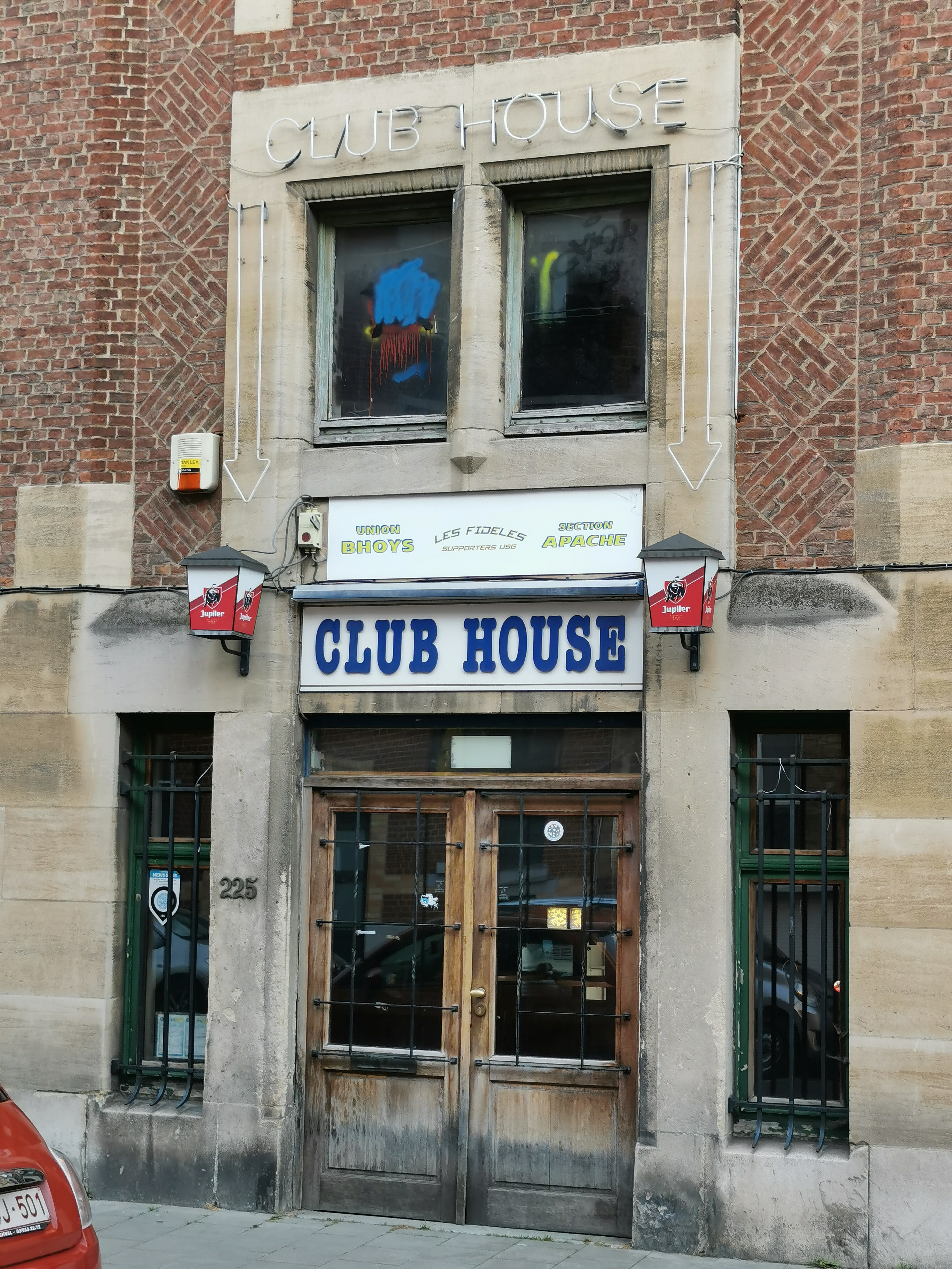 Union Saint-Gilles stadium